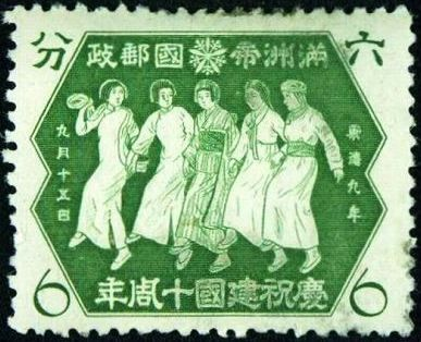 ManStamp Five races girls